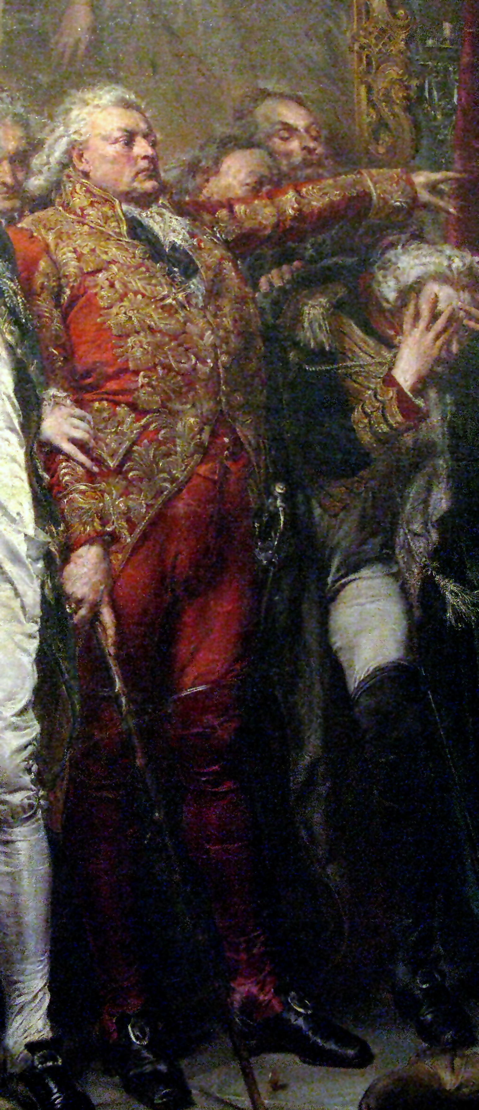 Adam Poniński, fragment of painting Rejtan - Upadek Polski